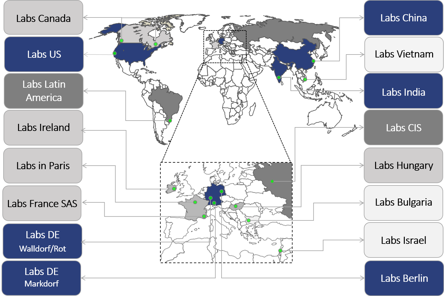 SAP Labs Locations